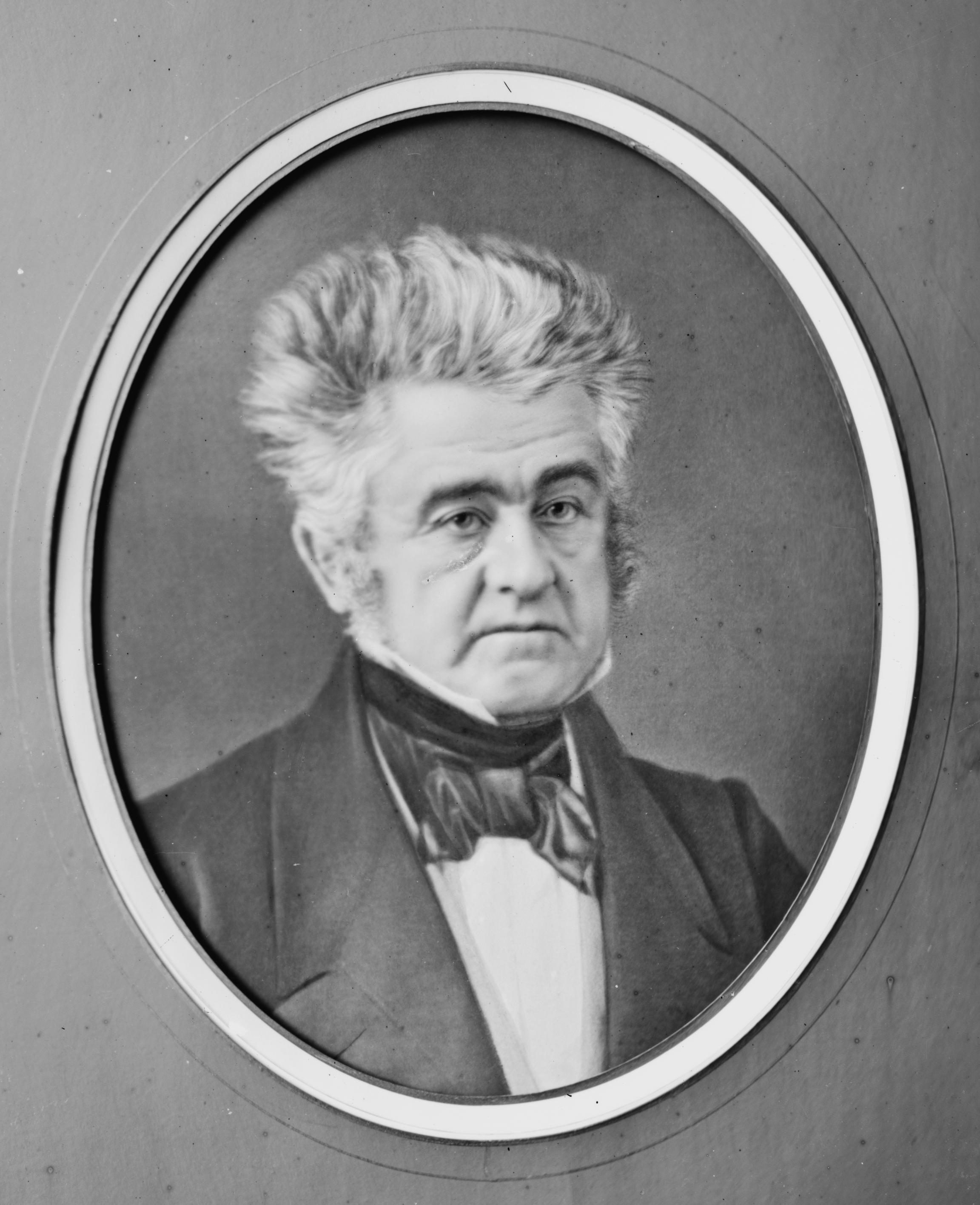 William C. Bouck. Library of Congress description: "Hon. Wm. C. Bouck"